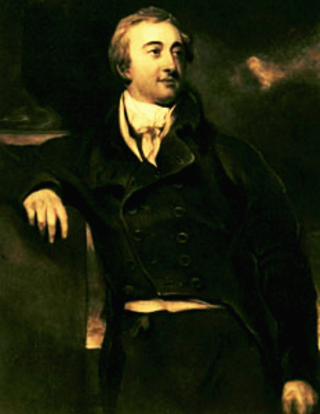 Bentinck, Lord William Henry Cavendish (Lawrence, 1804)